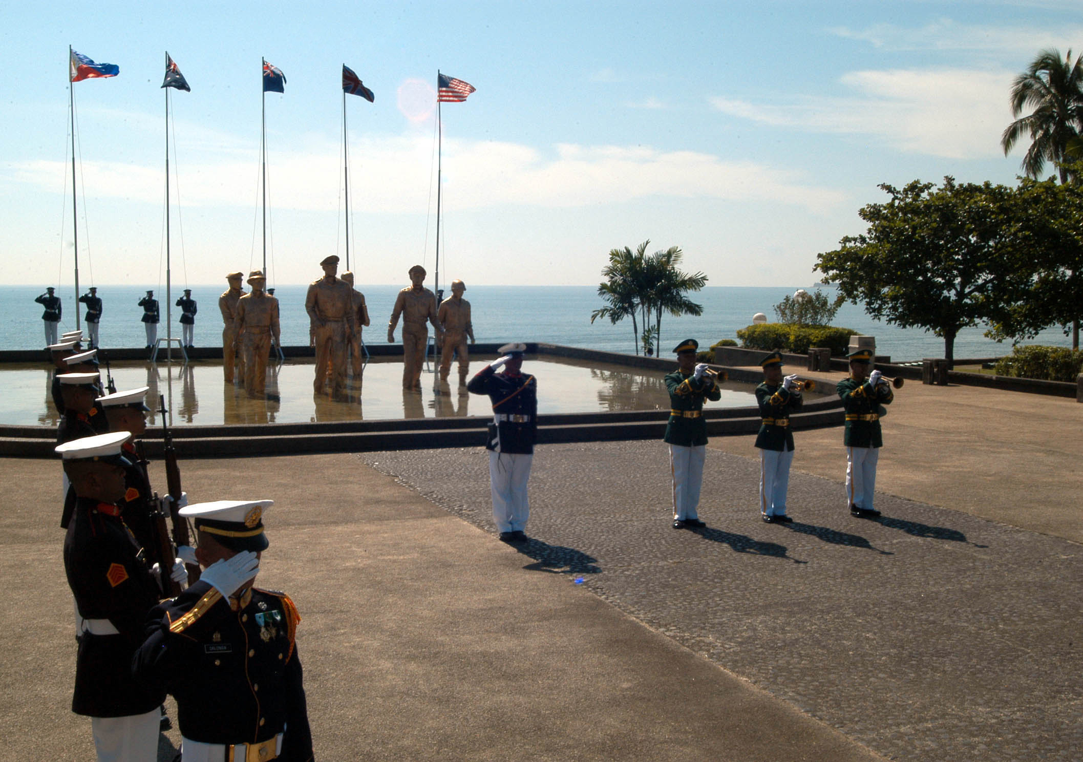 Tacloban, Philippines (Oct. 20, 2004) - Backed by a monument marking the location of Gen. Douglas MacArthur's return to the Philippines 60 years ago, a Philippine Marine Corps honor guard stands at attention during the playing of Taps, in honor of those who lost their lives during the Battle of Leyte Gulf. Philippine President Gloria Macapagal-Arroyo, U.S. Ambassador to the Philippines Francis Ricciardone, and others, spoke of the sacrifices made by veterans and the closeness of the U.S.-Philippines relationship still today. Retired Adm. Ronald Hays, a former commander of U.S. Pacific Command, along with Commander of Logistics Group Western Pacific, Rear Adm. Kevin Quinn, represented the U.S. Navy during the ceremony. U.S. Navy photo by Lt. Chuck Bell (RELEASED)